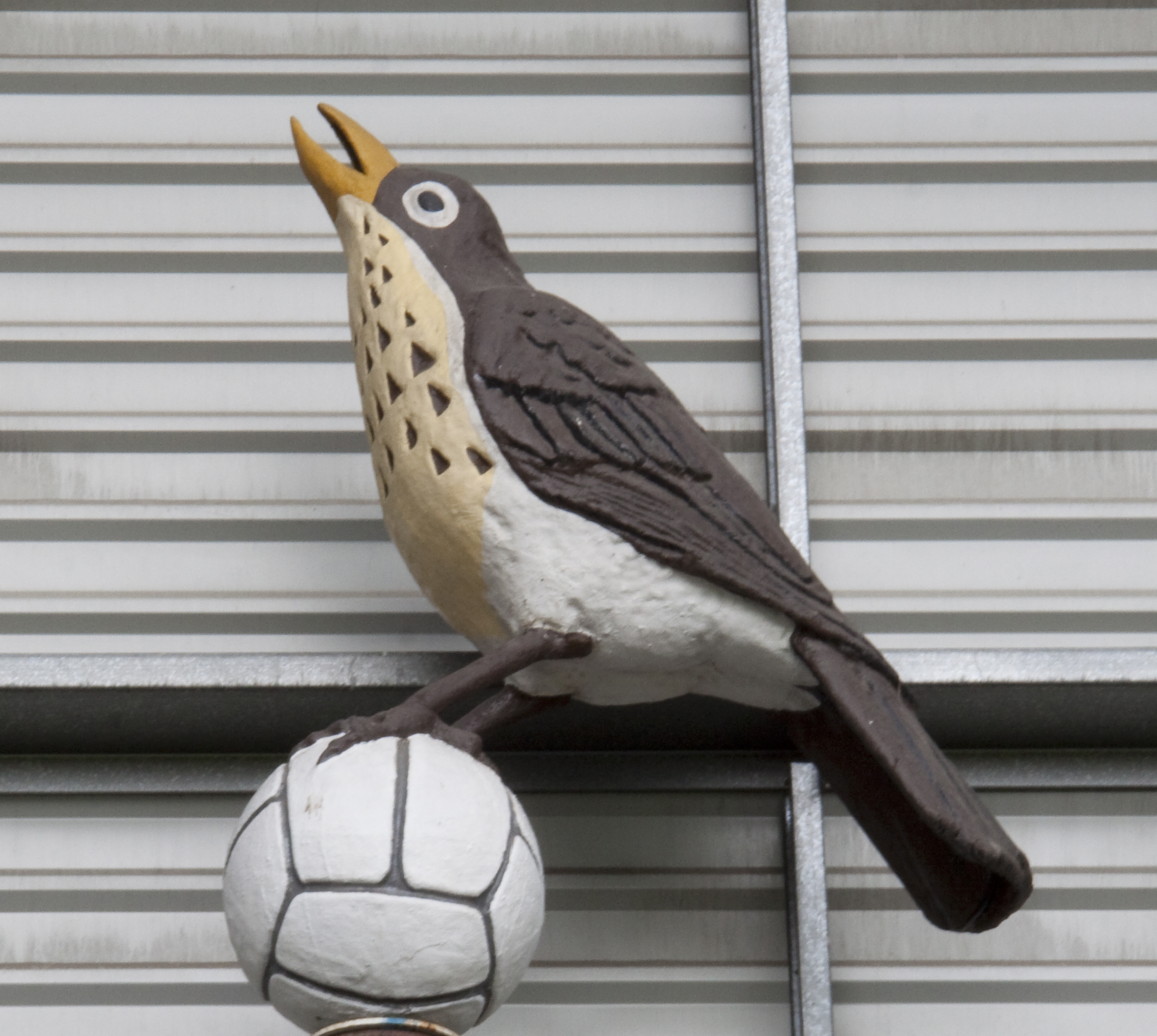 The throstle, symbol of West Bromwich Albion FC, at The Hawthorns